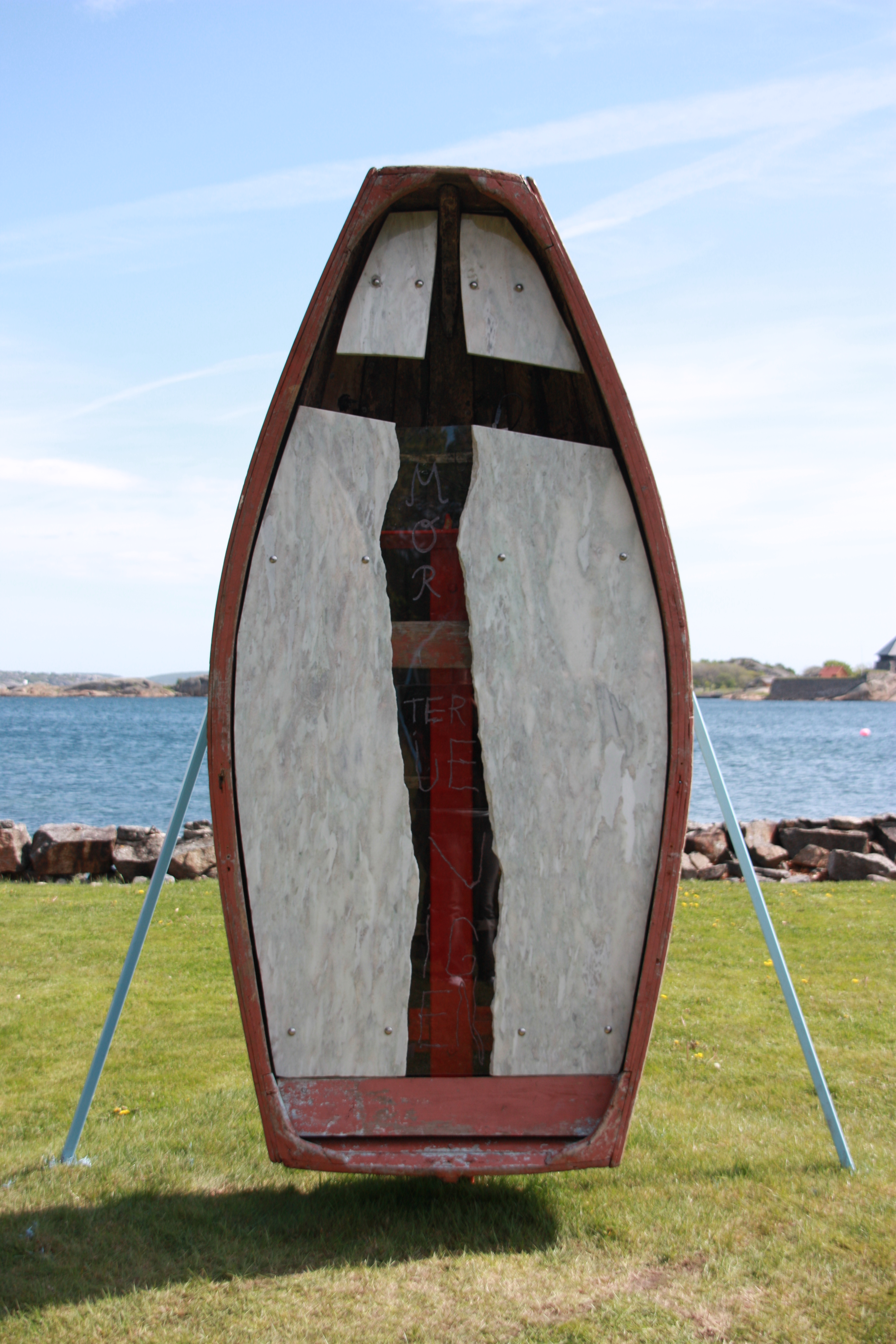 The 4th boat in the artist Päivi Laaksos installation Fredsskipene in Stavern. The boat has the inscription "Mor" ("mother") and "Terje Vigen", written by the artists 5 year old son. The boat is nicknamed "Gudna", after the artists helper Gunnar.